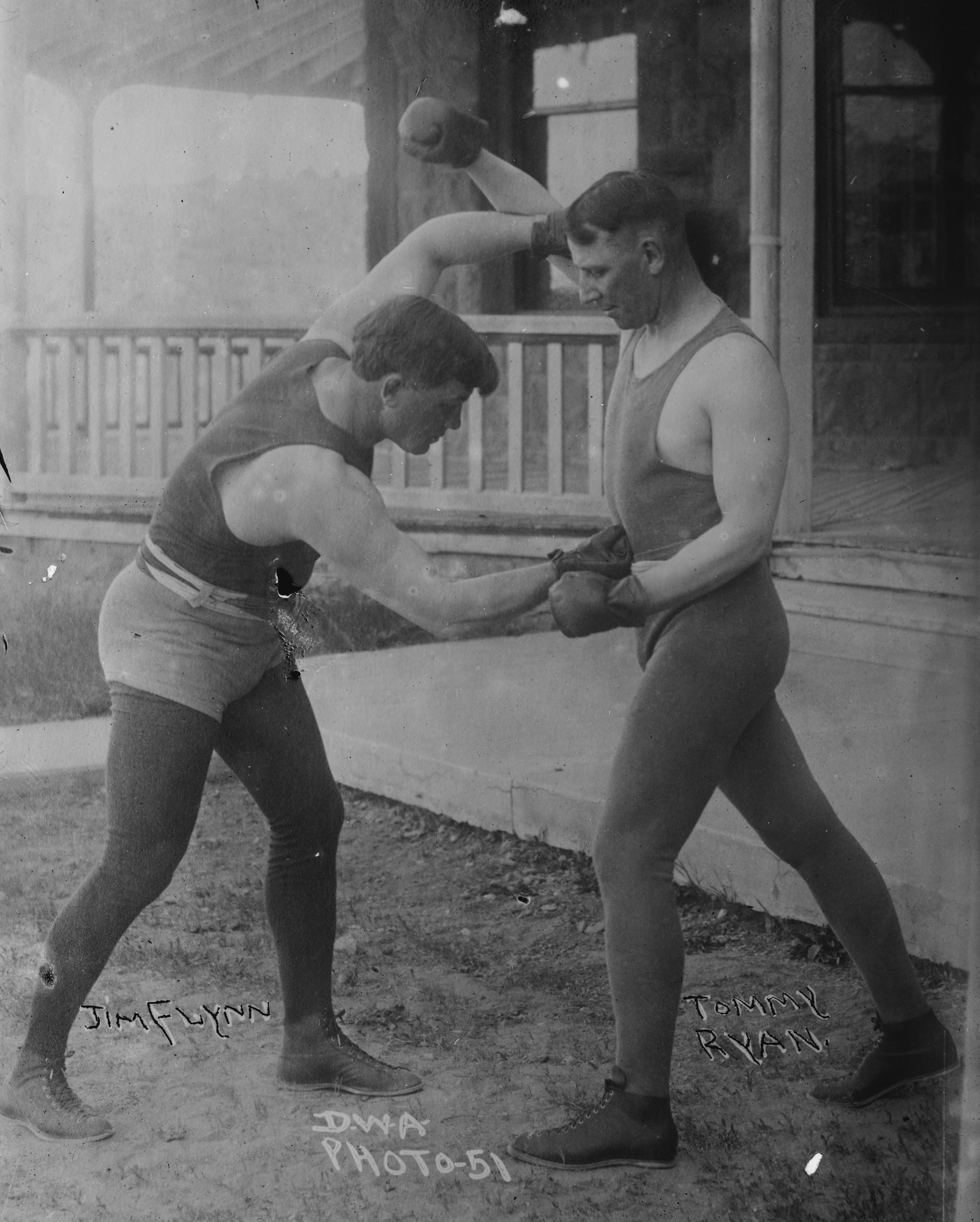 Fireman Jim Flynn (24 December 1879 – 12 April 1935) and Tommy Ryan (March 31, 1870 – August 3, 1948) - American boxers, of the early twentieth century.